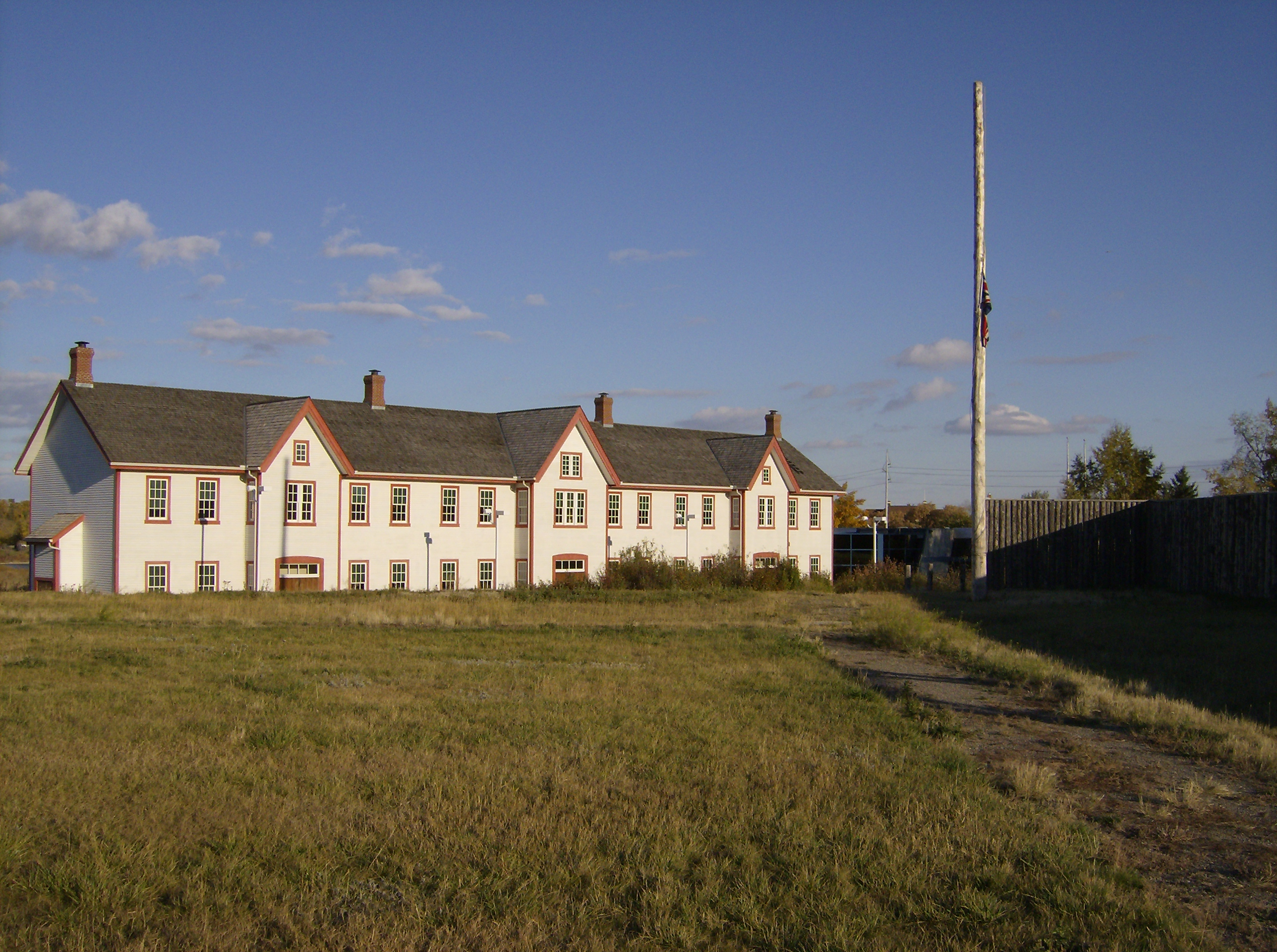 Part of the Fort Calgary historic site. This is a year 2000 "replica" of the soldier's residence originally built in 1888.